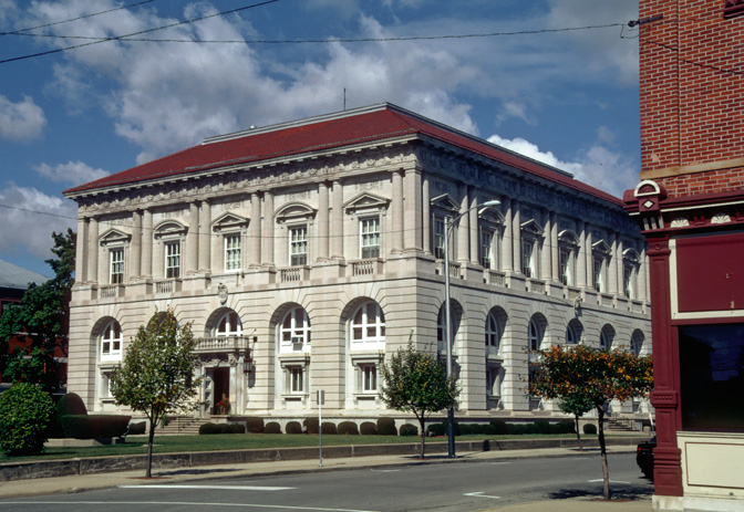 Putnam County Courthouse in Ottawa, Ohio, United States, built in 1913. Address 245 E. Main St.